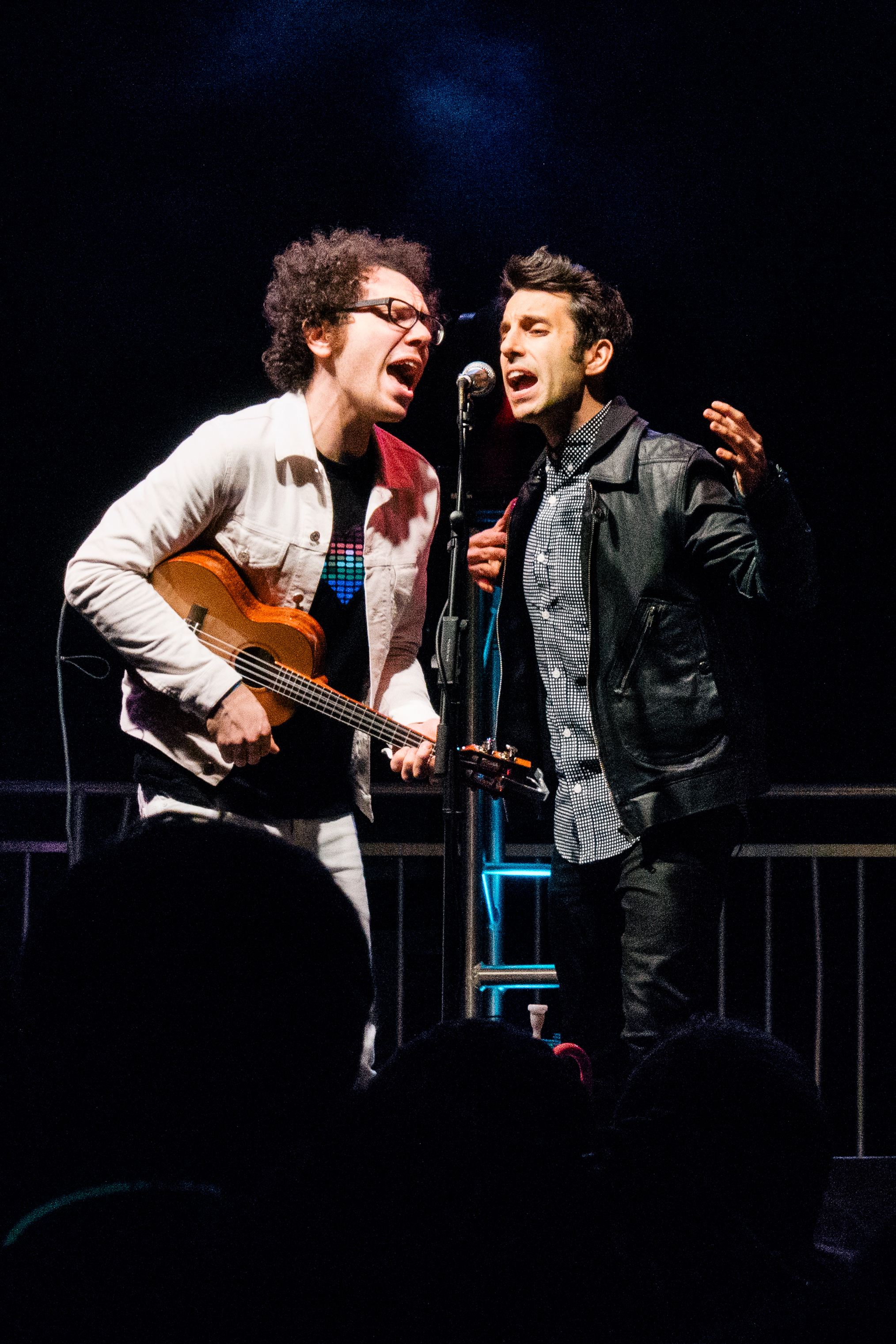 American duo A Great Big World performing live